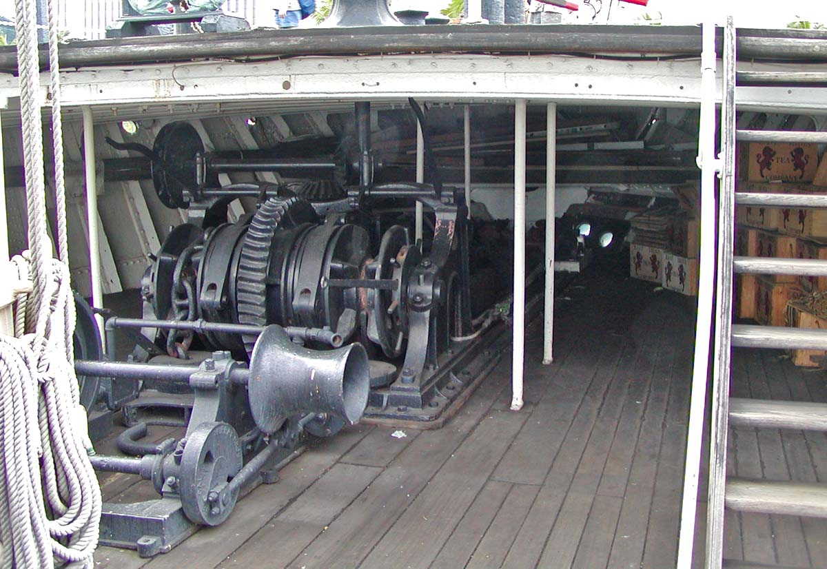 Photo of Falls of Clyde forecastle underneath, Honolulu